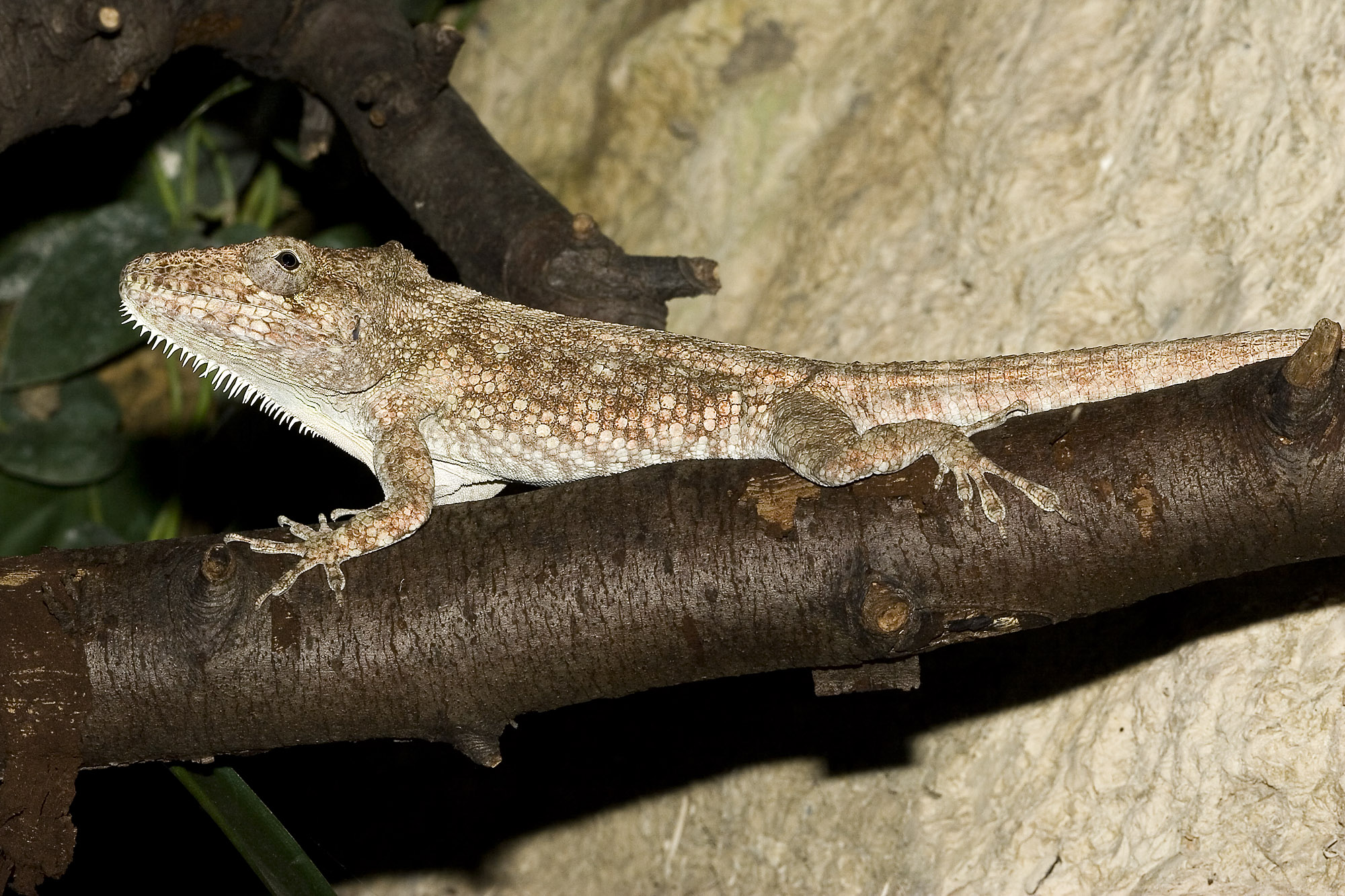 Please report references to .